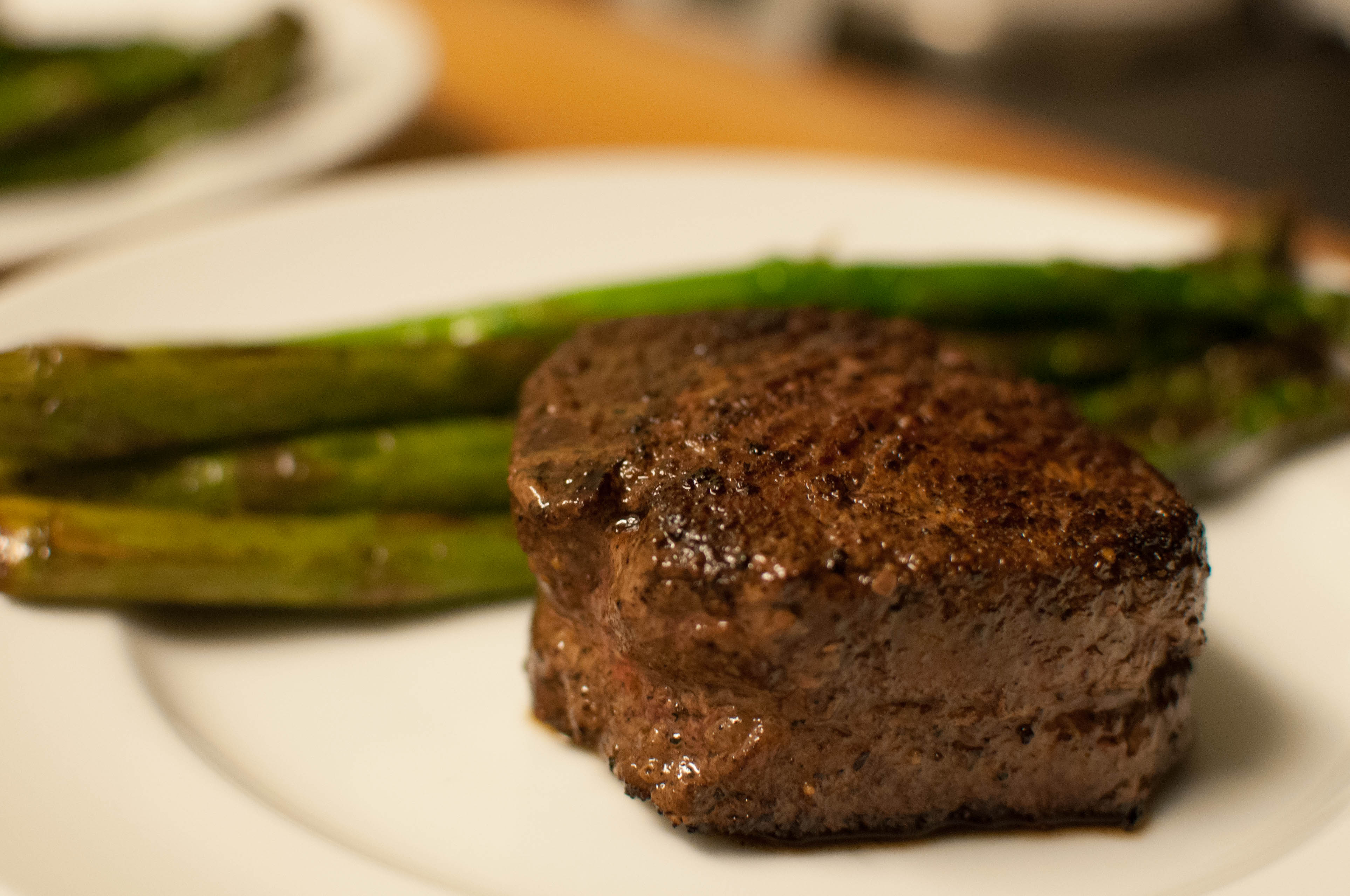 Traditional filet mignon with grilled asparagus spears